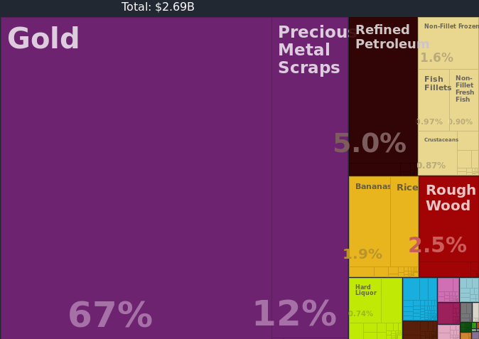 Export Trading Treemap. From MIT/Harvard Atlas of Economic Complexity